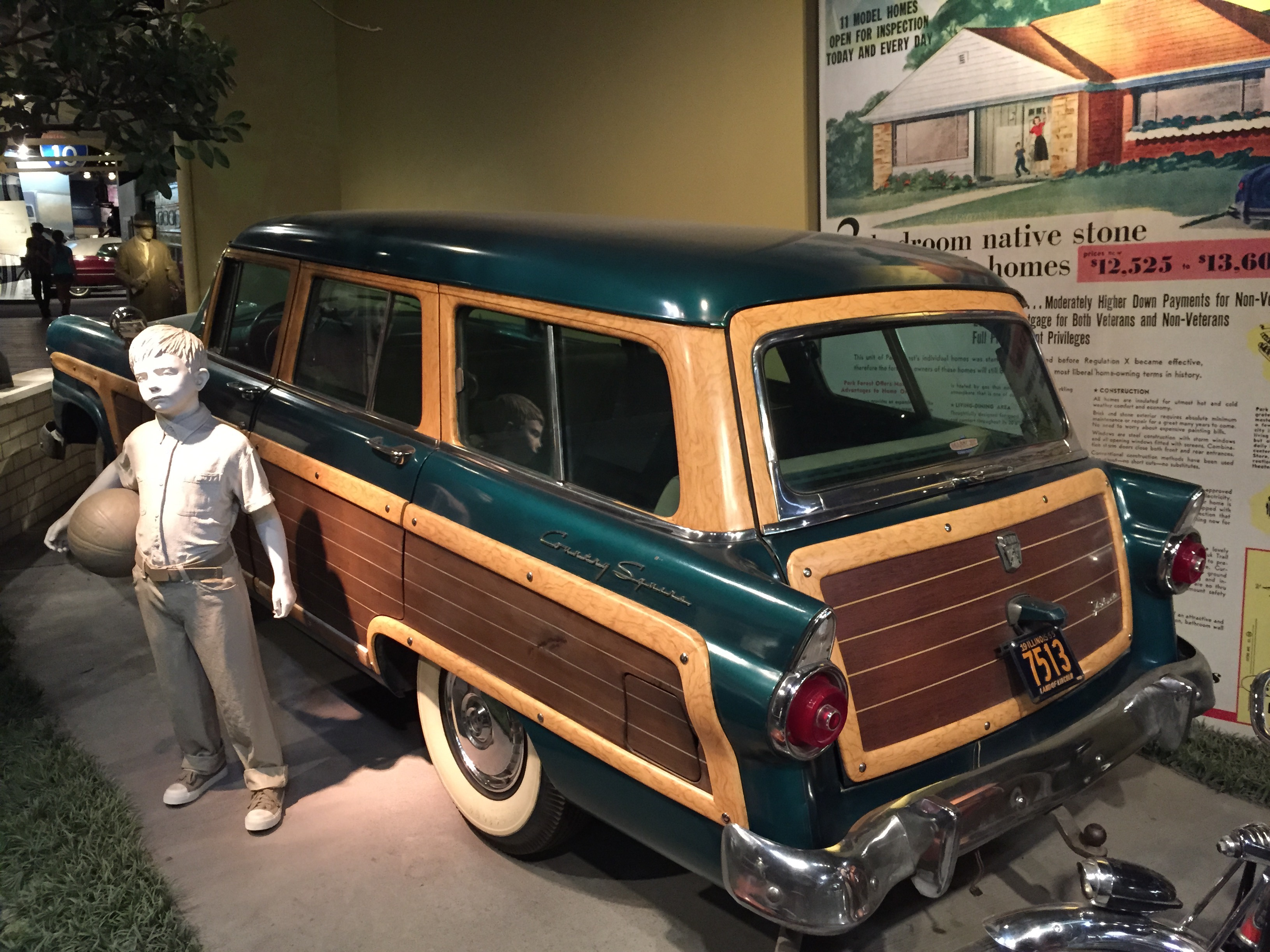 1955 Ford Country Squire station wagon at Smithsonian National Museum of American History